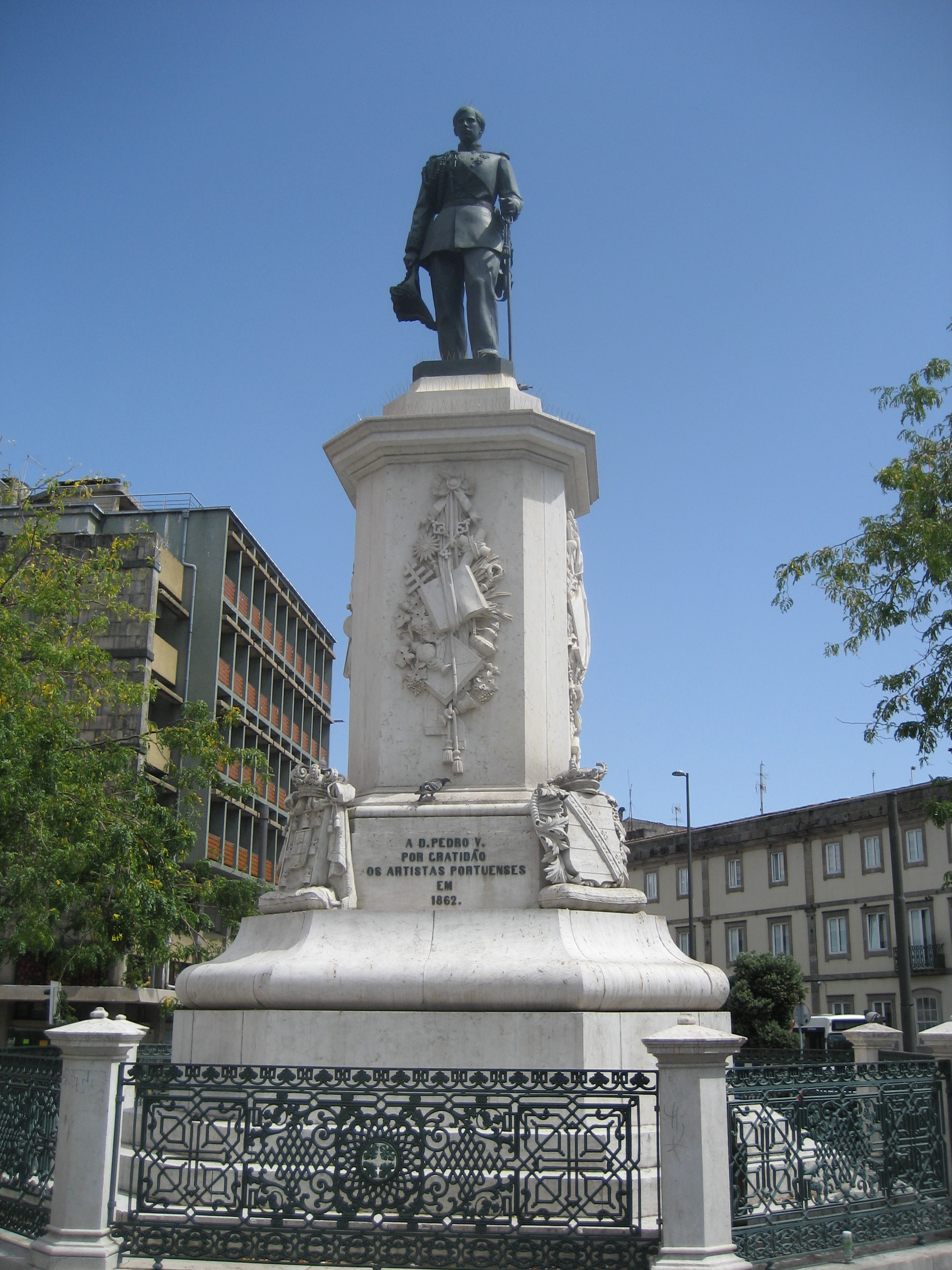 Porto: statue of King Pedro V of Portugal. Sculptor: José Joaquim Teixeira Lopes